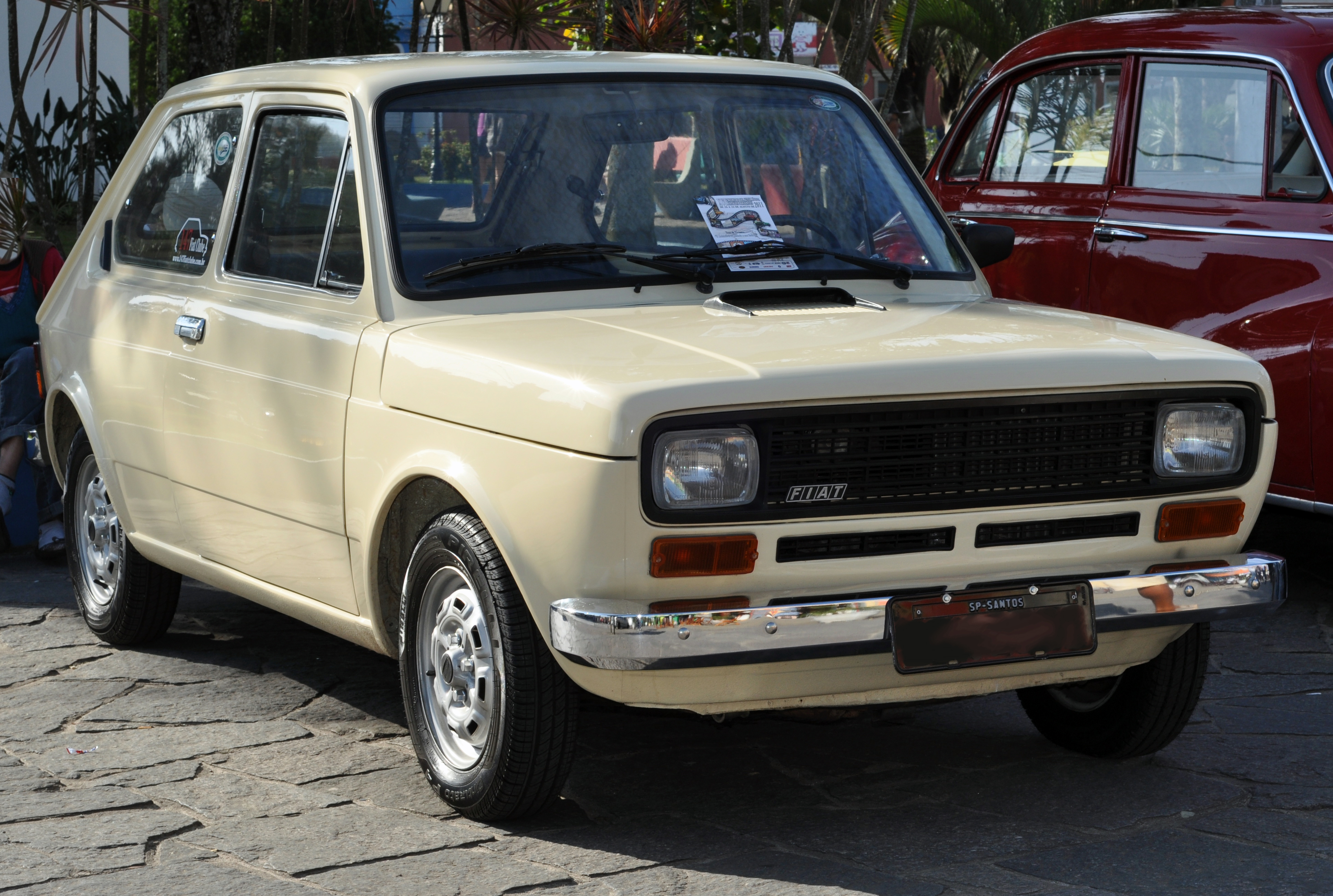 Early-style Fiat 147 in Itanhaém